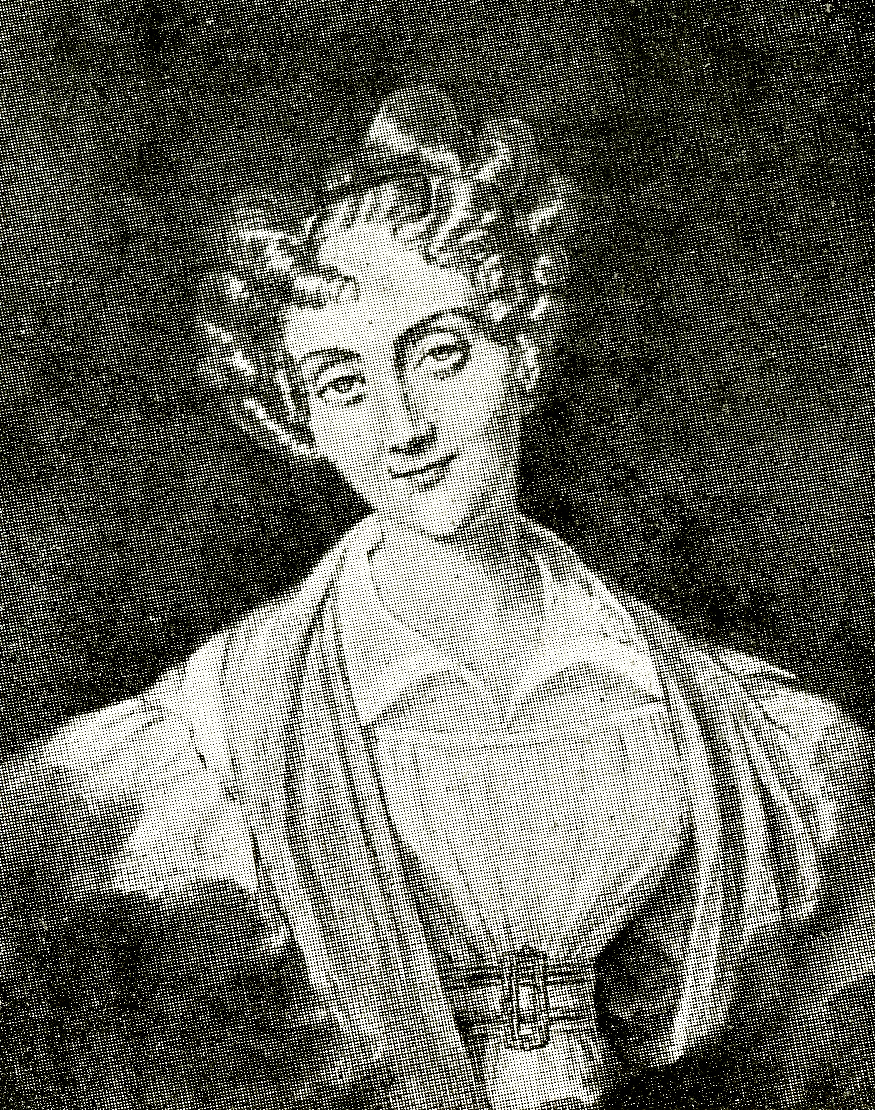 Amélie Cyvoct (1803–1893), niece and adoptive daughter of Juliette Récamier